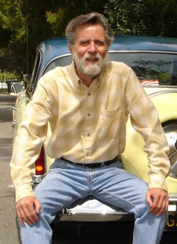 Photo of Ken Eberts